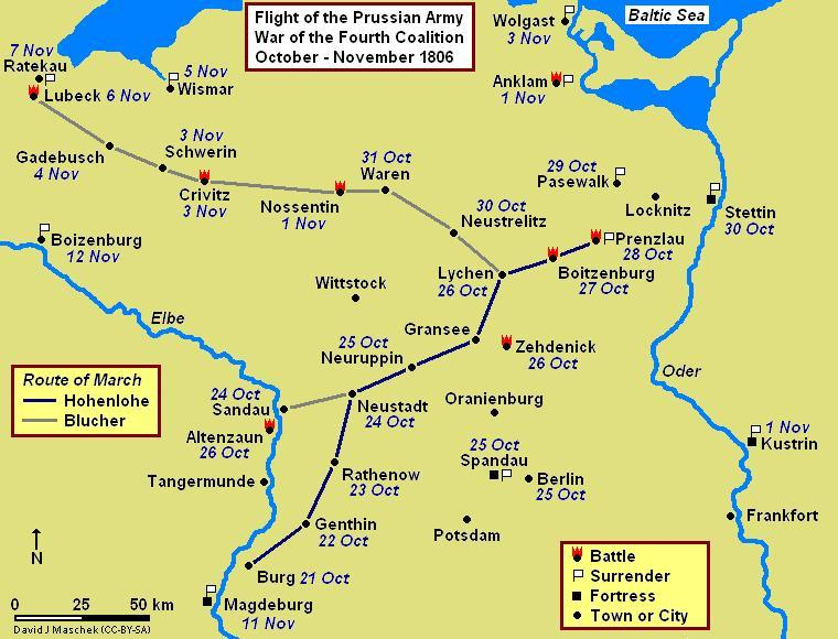 Flight of the Prussian Army, War of the Fourth Coalition, Oct-Nov 1806. Prenzlau-Lubeck Campaign Map.